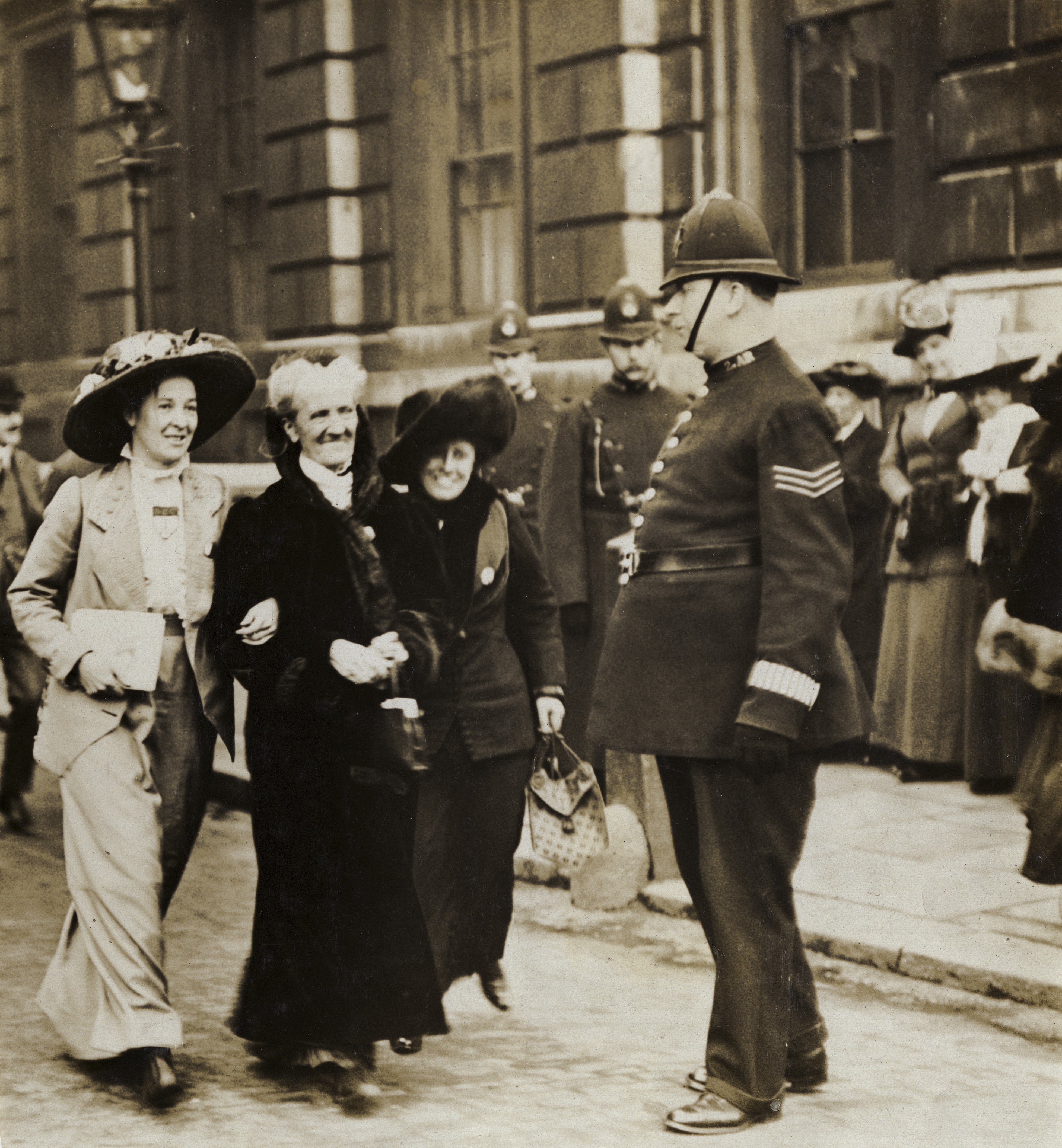 7JCC/O/02/067 Photograph, printed, paper, monochrome, Edith How Martyn , Charlotte Despard, and Emma Sproson walking arm in arm down a street, watched by a policeman; manuscript inscription on reverse 'Women's Freedom League. Mrs Despard, Mrs How-Martyn and Mrs Sproson'. The image has been cut from a larger photograph